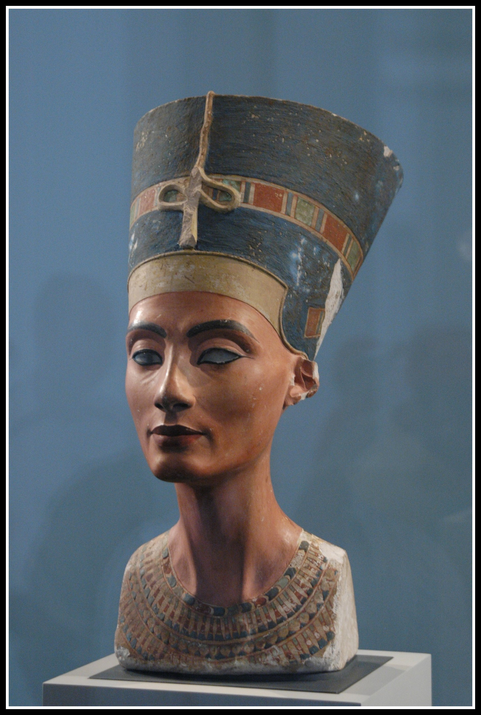 The Nefertiti bust is a 3300-year-old painted limestone bust of Nefertiti, the Great Royal Wife of the Egyptian pharaoh Akhenaten and is one of the most copied works of ancient Egypt. Due to the bust, Nefertiti has become one of the most famous women of the ancient world as well as icon of female beauty. The bust is believed to have been crafted in 1345 BC by the sculptor Thutmose. It is currently on display at the Neues Museum, Berlin